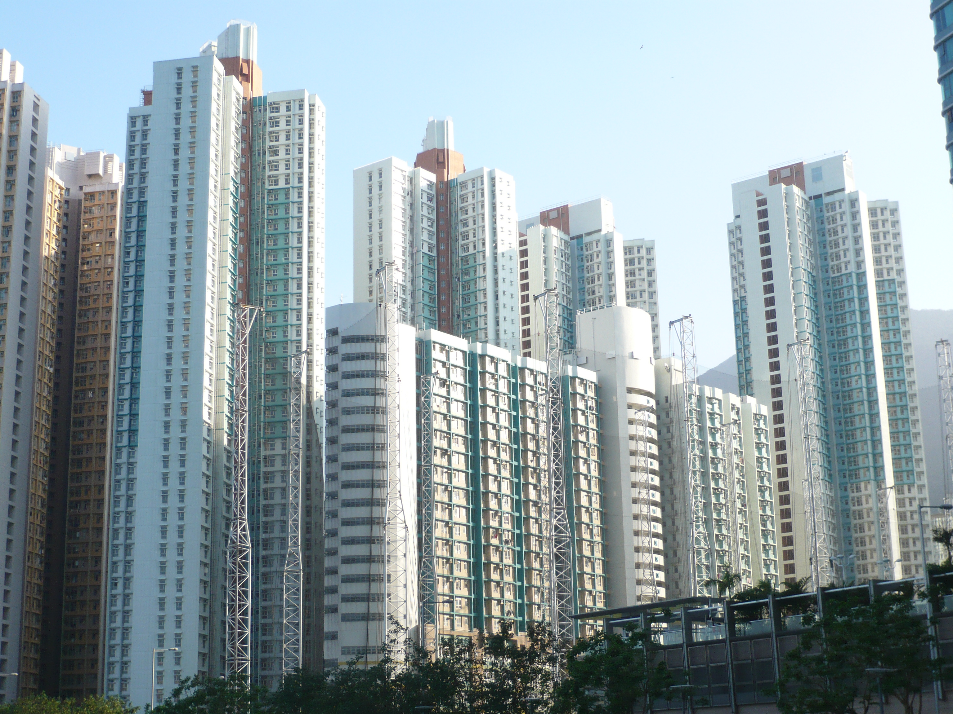 TungTaoCourt